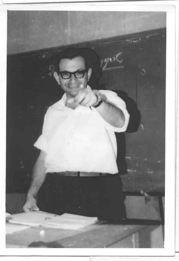 Picture of Michael Harsgor, our History teacher, at Tichon Ironi D""